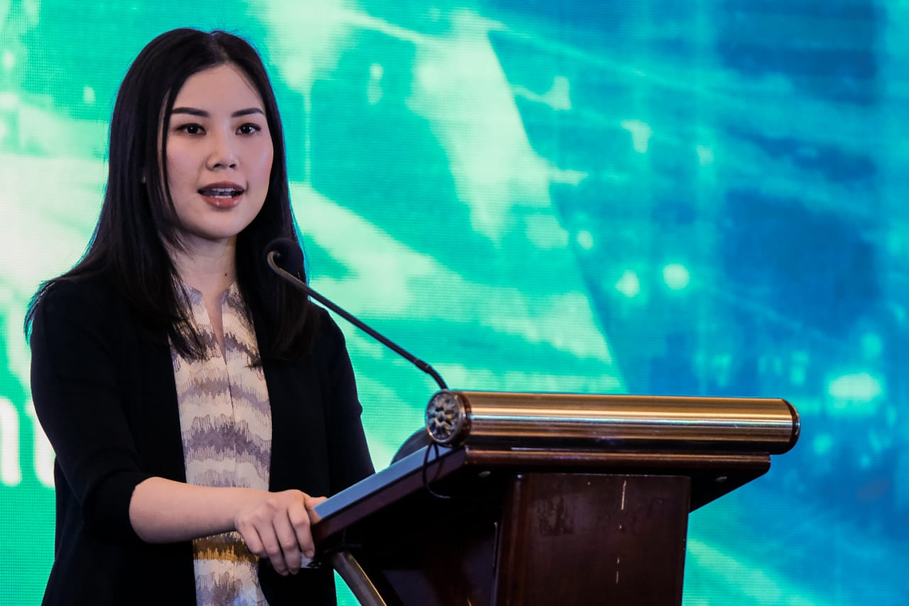 Angela Tanoesoedibjo in Information dissemination on the Covid Period Health Policy & Protocol (2020)